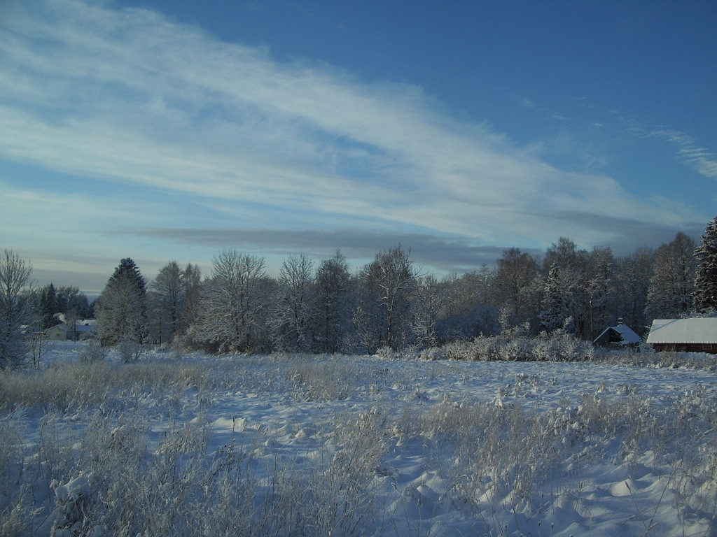 Winter wonderland in Saaremaa, Estonia. January 3rd 2009